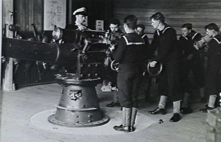 Naval recruits training on the BL 4 inch Mk VII gun at HMAS Cerberus naval base, Victoria. The man at right holds a cordite cartridge still in its tin case.